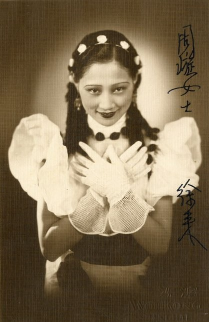 Autographed photo of 1930s Shanghai actress Xu Lai, given to Zhou Xuan